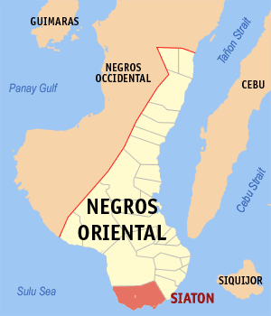 Map of Negros Oriental showing the location of Siaton